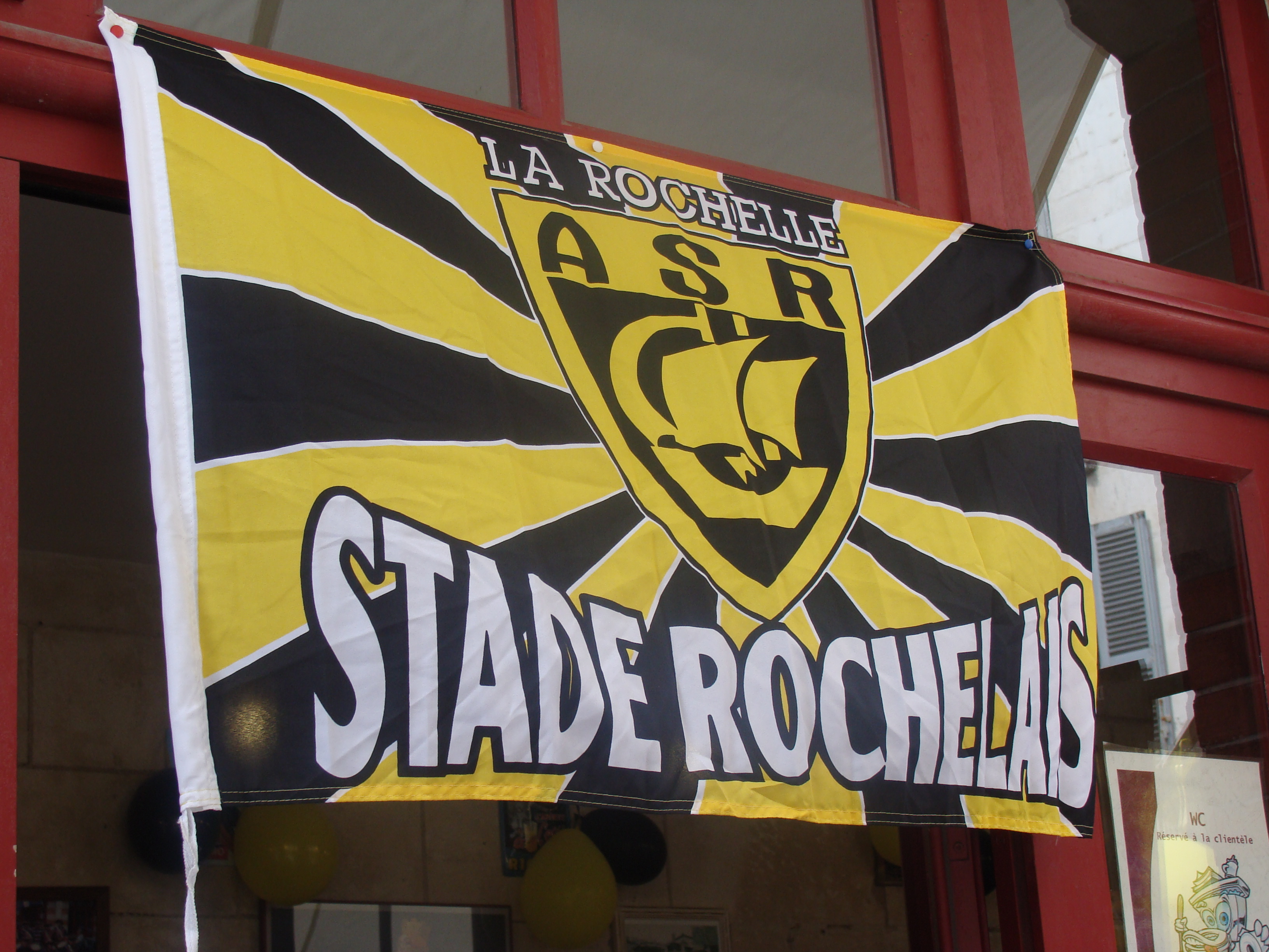 a Rugby Union supporter's flag of "Atlantique Stade Rochelais" in La Rochelle, France